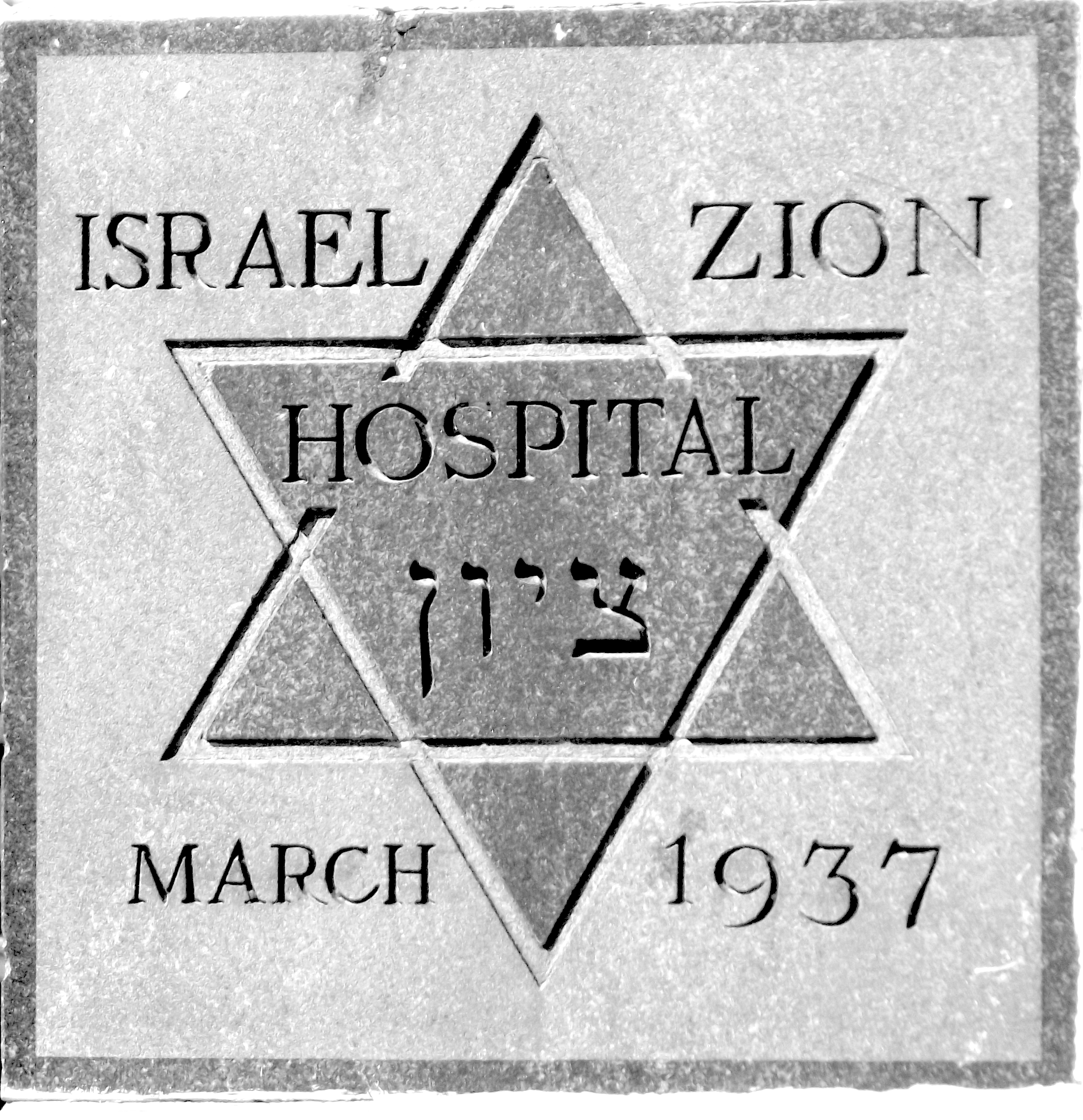 Cornerstone for the Brooklyn, NYC, medical center now known as Maimonides. In one of its previous incarnations it was Israel Zion.